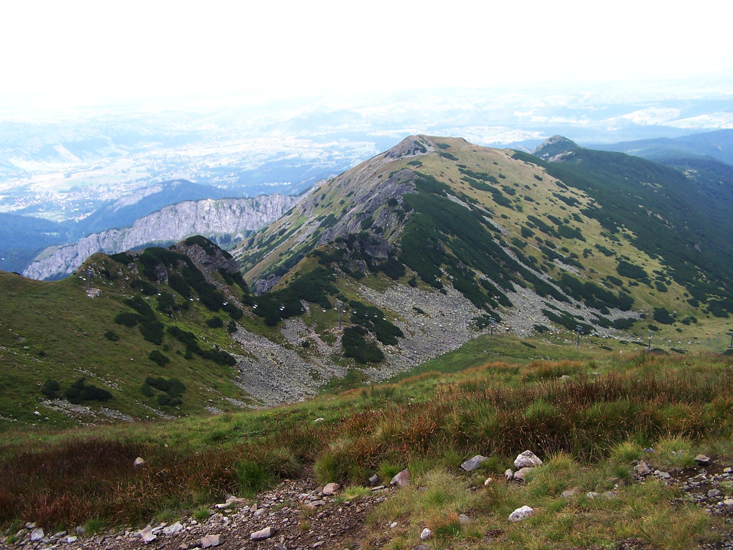 Uhrocie Kasprowe (West Tatra Mountains)